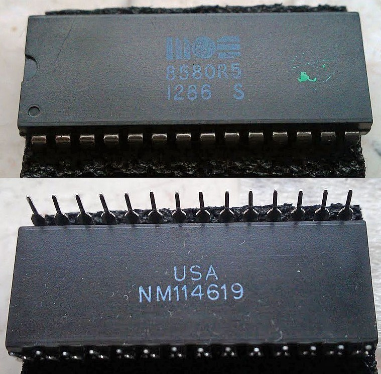 MOS 8580R5 made in the U.S. which is very seldom!